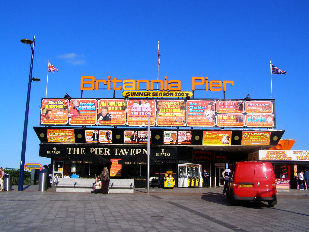 Britannia Pier, Marine Parade, Great Yarmouth